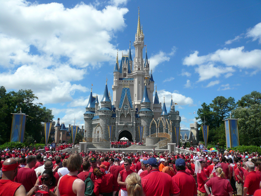 Gay Days at Walt Disney World is a gay pride event held at Walt Disney World near Orlando the first week in June. Various circuit parties and dance events comprising the majority of the schedule, culminating in a park-sanctioned (but not park-organized) "Gay Day" at the end of the week, in which gay travelers wear red to let others know why they patronized the park that day.